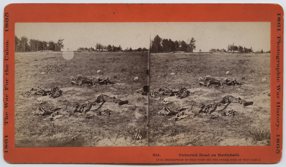 Title: Unburied Dead on Battlefield. Creator: Unknown Date: ca. 1862 Part Of: Place: Hanover County, Virginia Description: The Battle of Gaines' Mill (June 27, 1862), also known as First Cold Harbor, was the third of the Seven Days' Battles (Peninsula Campaign) of the American Civil War. The outcome was a victory for the Confederate States Army. Source: Gaines' Mill, National Park Service, Physical Description: 1 photographic print on stereo card: stereograph, albumen; 9x18 cm File: ag1982_0145_053_c Rights: Please cite DeGolyer Library, Southern Methodist University when using this file. A high-resolution version of this file may be obtained for a fee. For details see the web page. For other information, . For more information and to view the image in high resolution, View the